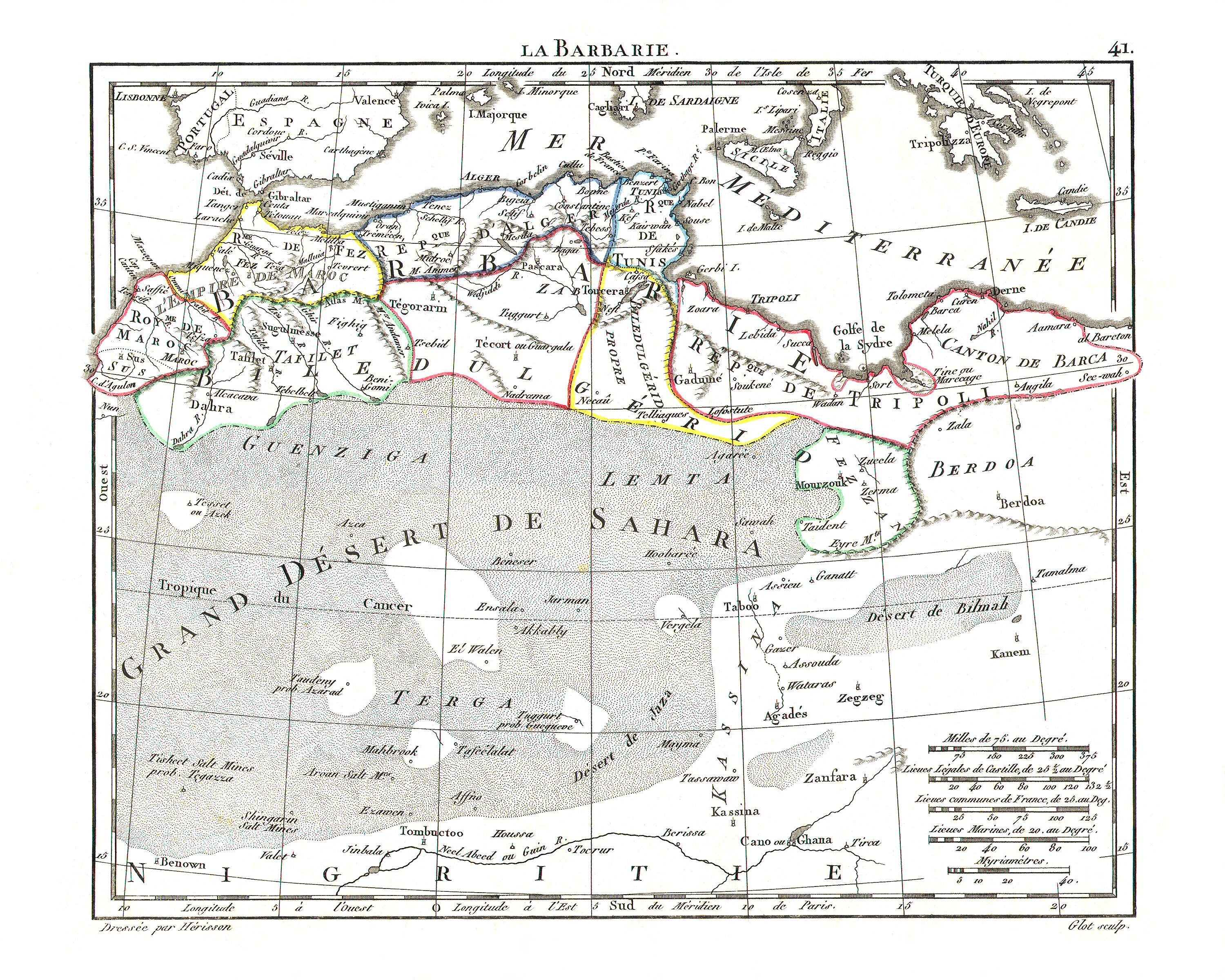 1806 map of North Africa — the Maghreb and Barbary Coast.